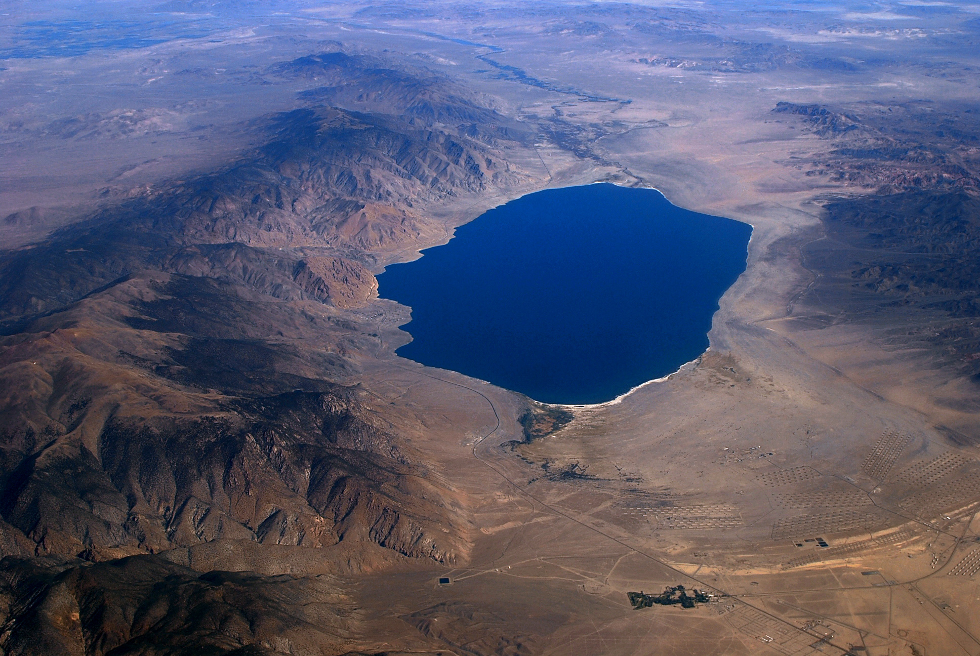 Photo of Walker Lake from window of flight from SF to Dallas.